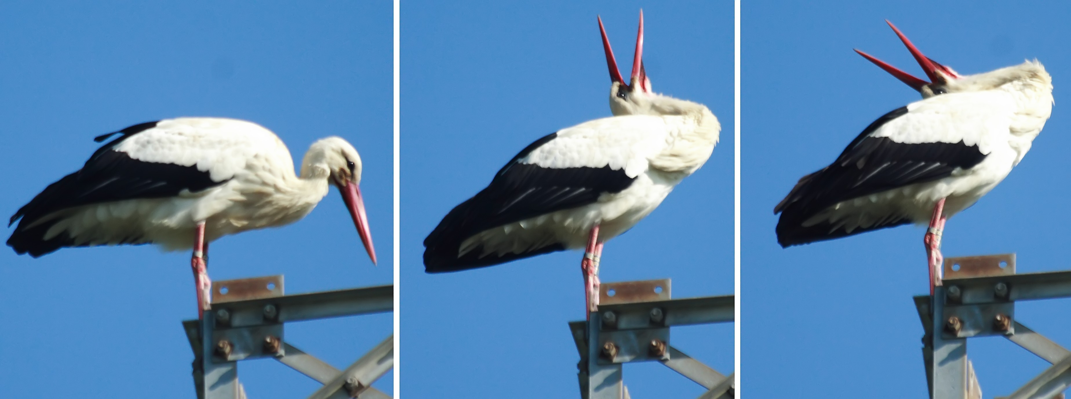 Sounds of White Stork, Pisa, Italy.